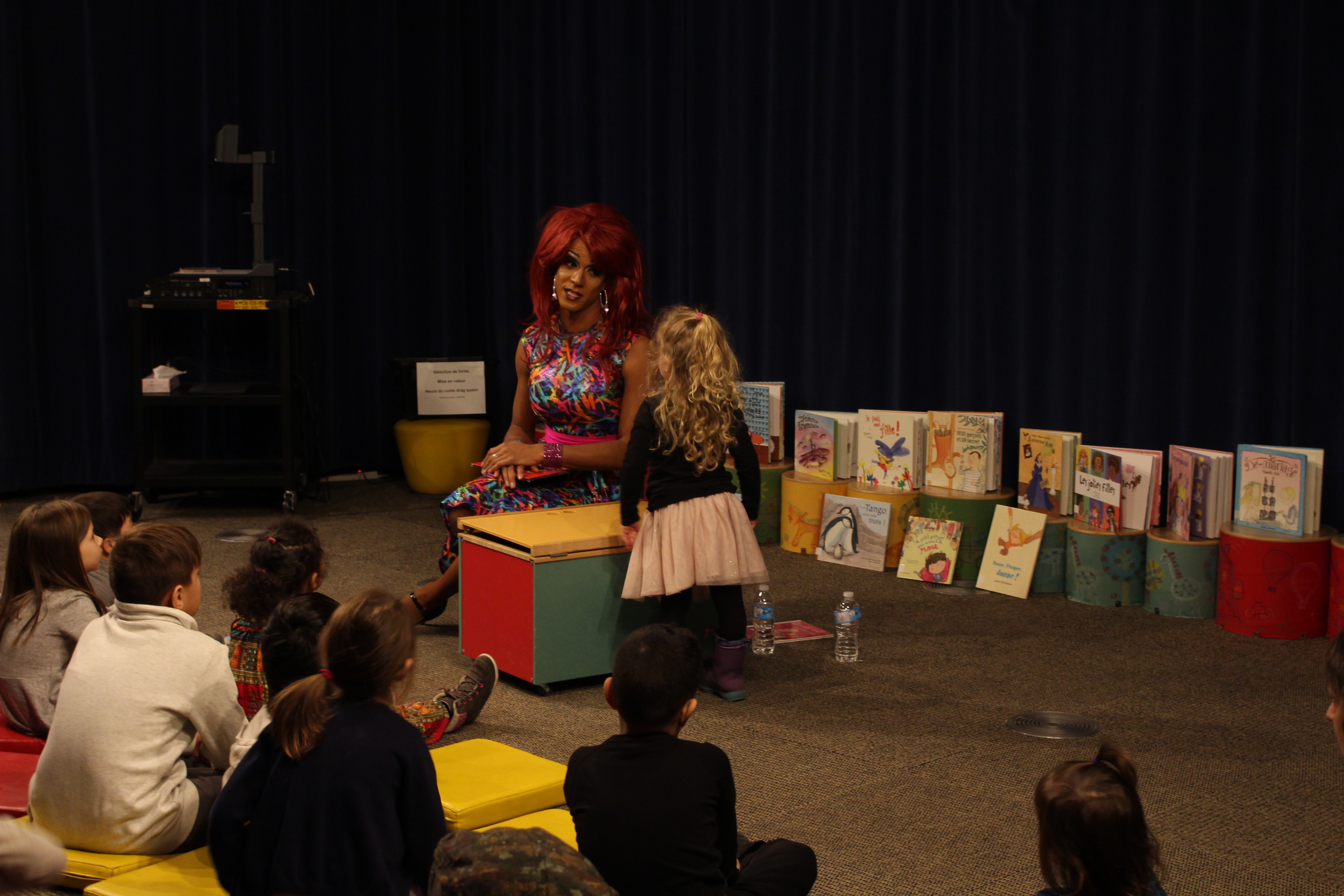 Drag Queen storytime starring Bardada de Barbades at the Grande Bibliothèque in Montreal.